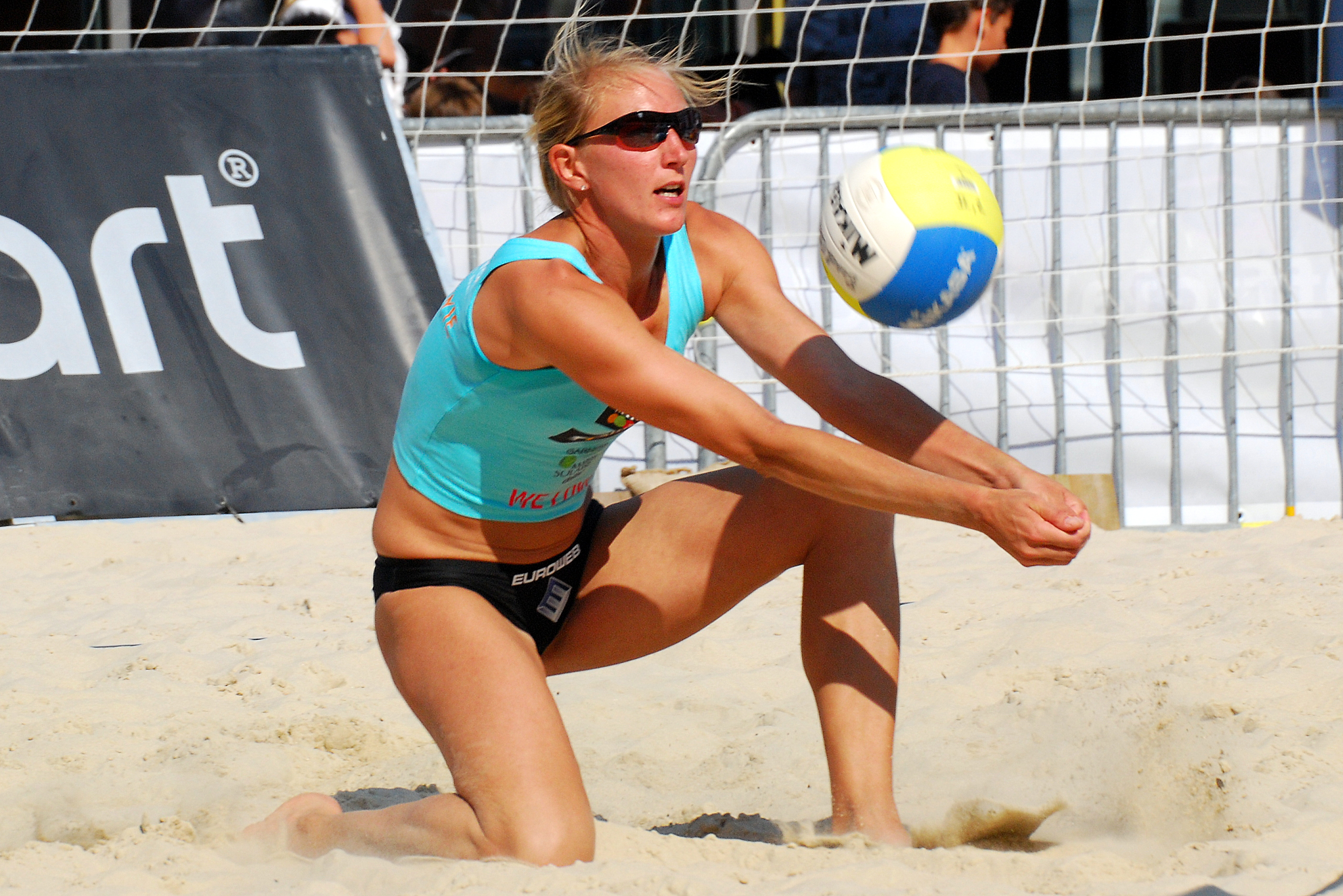 The German beach volleyball player Rieke Brink-Abeler during the Smart Beach Tour 2008 at Bonn.